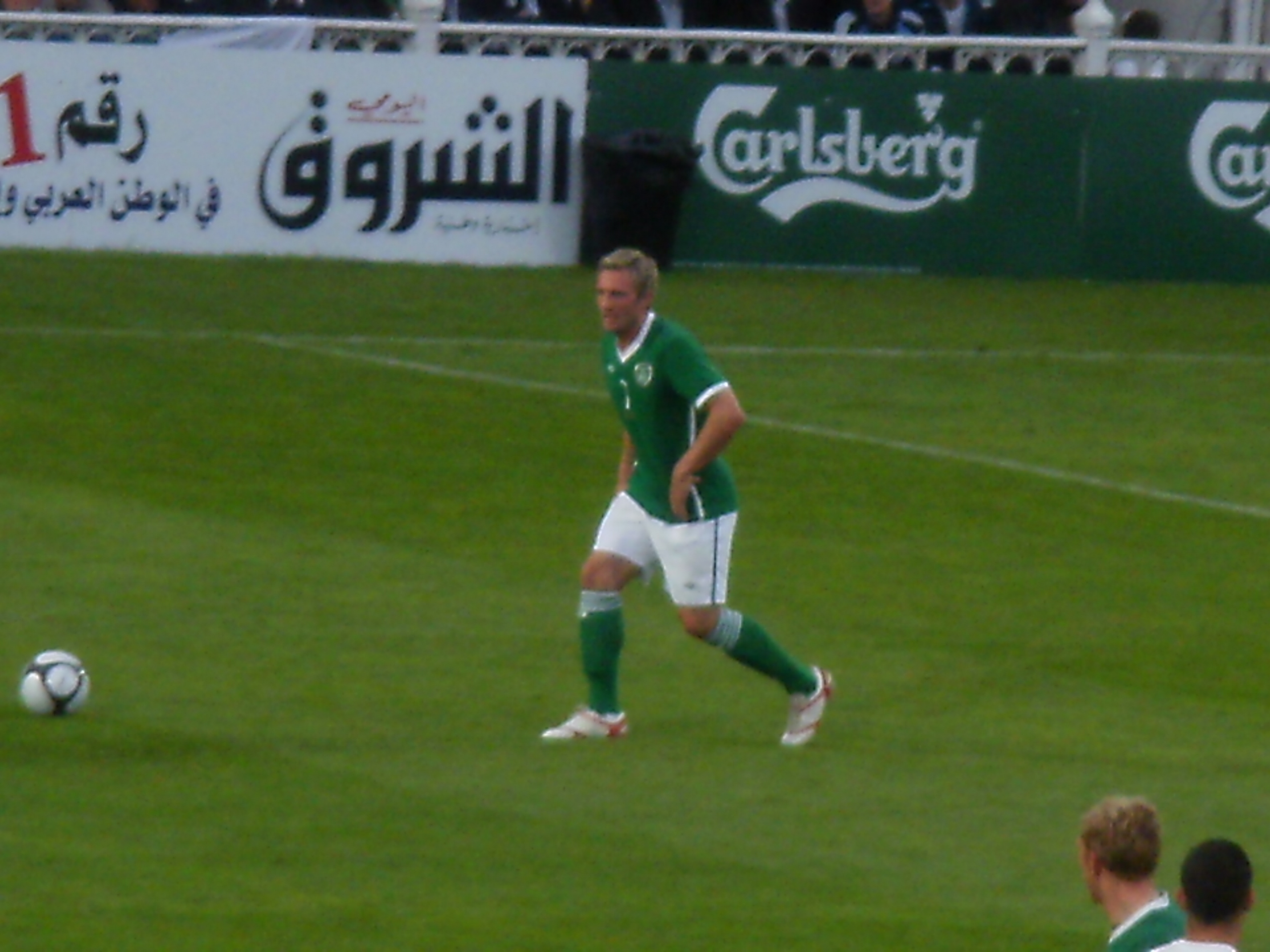 Liam Lawrence for Ireland